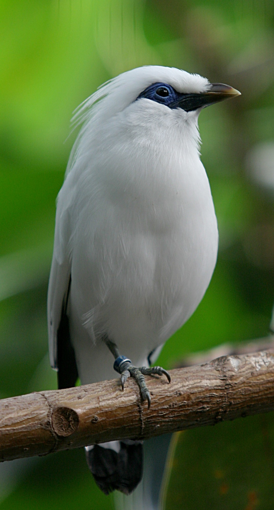 Bali Myna(h) or Rothchild's Mynah at the Milwaukee County Zoological Gardens in Milwaukee, Wisconsin.